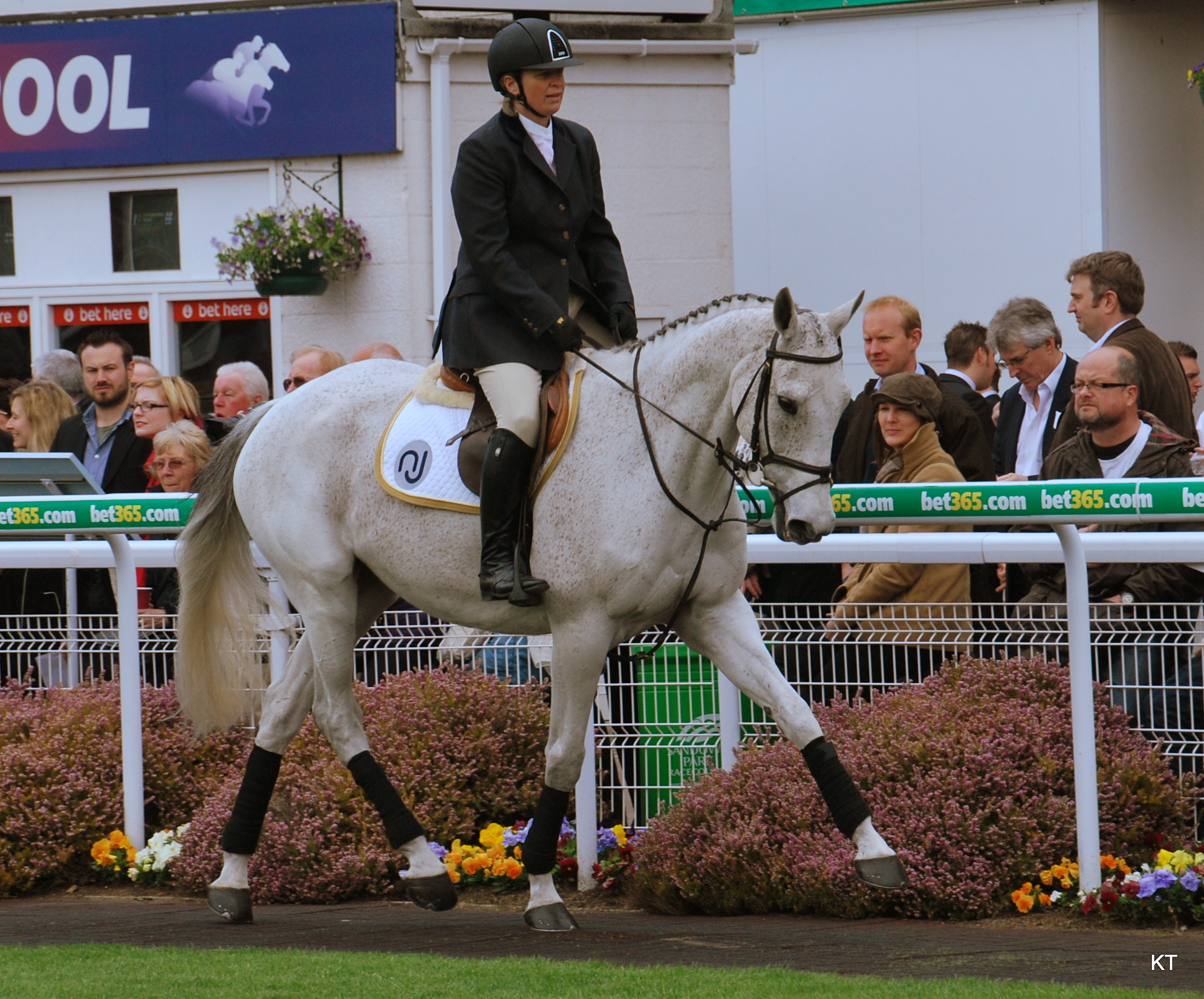 2012 Grand National winner Neptune Collonges at Sandown, April 2013 with Lisa Hale.